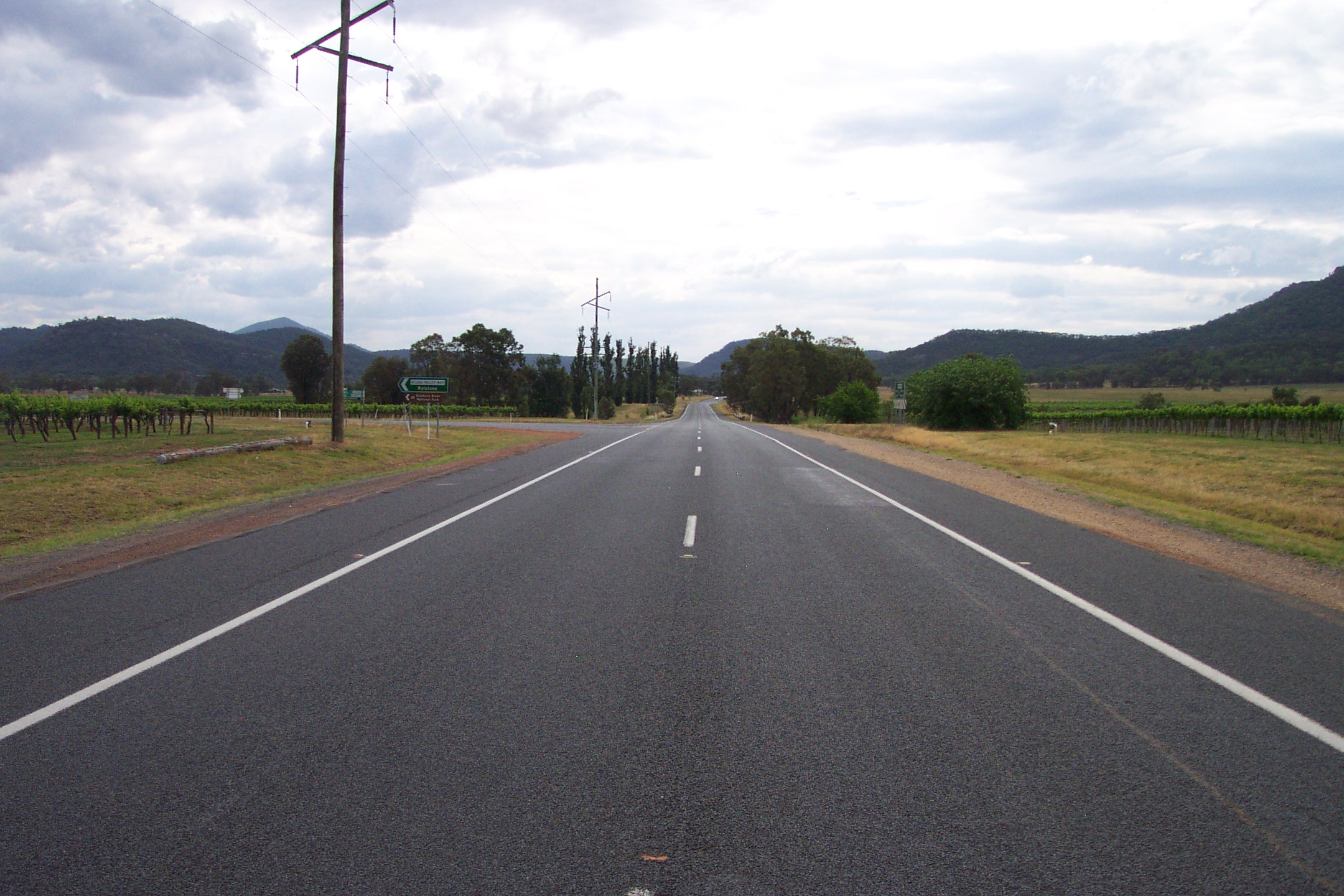 Looking west along the Golden Highway towards the Bylong Valley Way intersection, with Sandy Hollow in the distance.